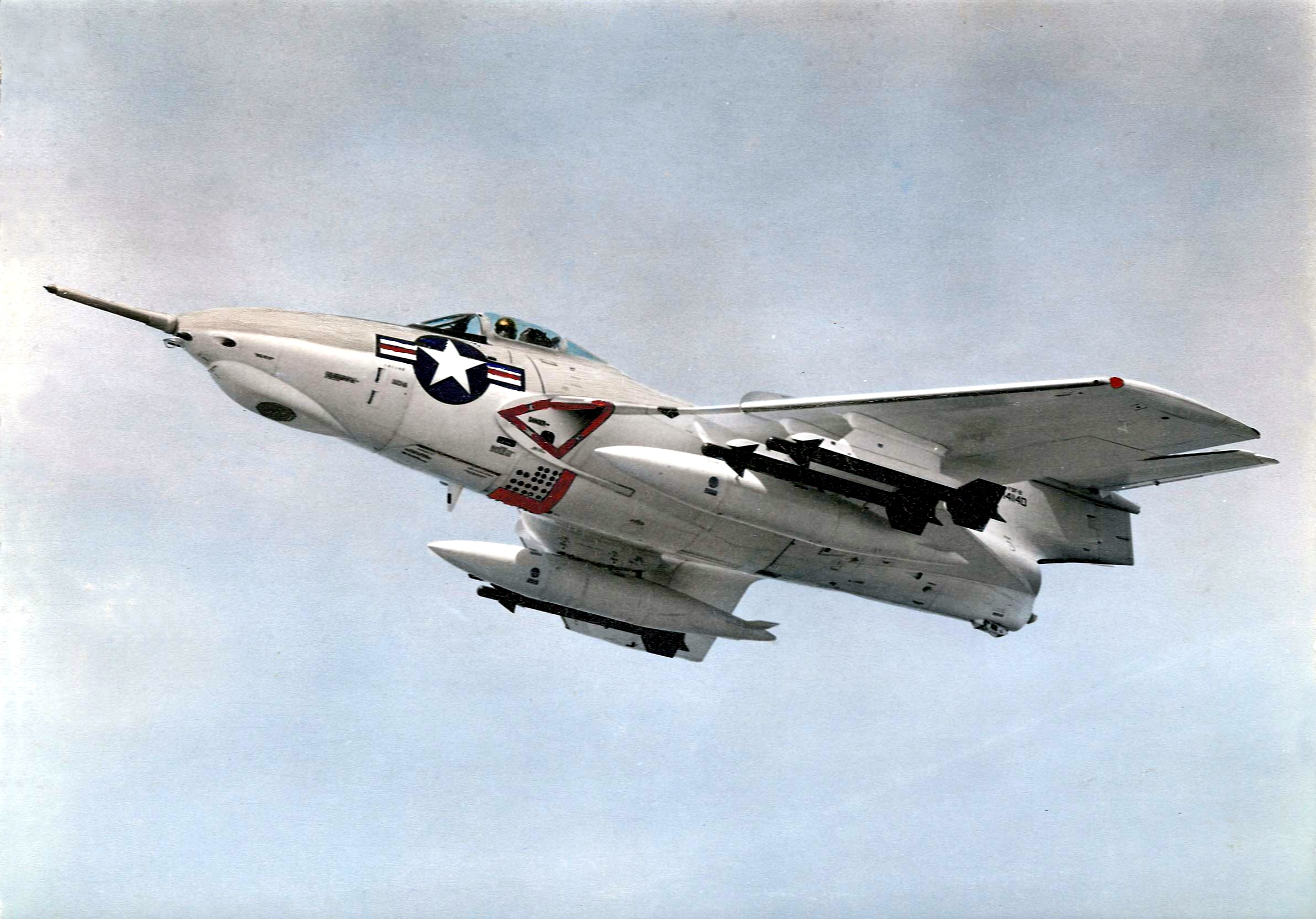 A U.S. Navy Grumman F9F-8 Cougar (BuNo 141140) armed with AIM-9B Sindewinder air-to-air missiles in 1958.